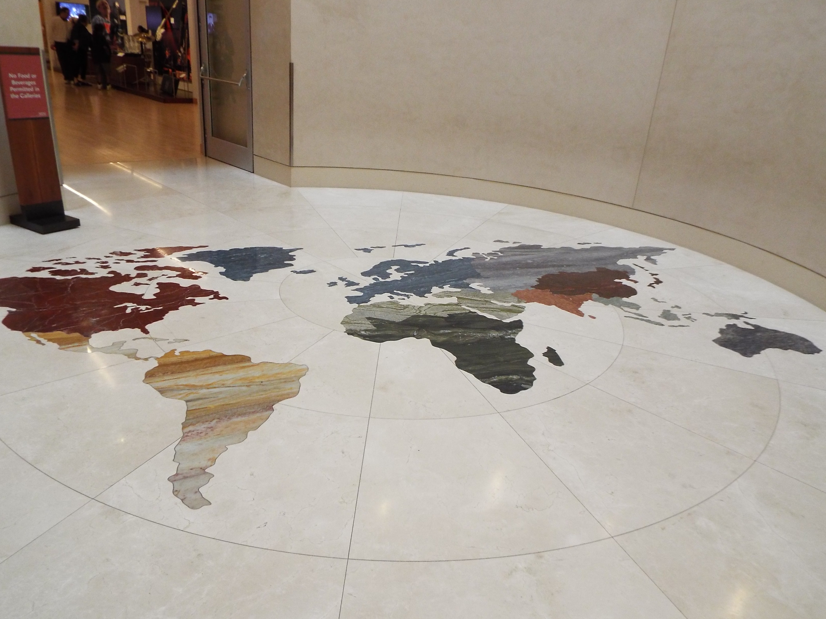 Floor representing the world of music in the Museum of Phoenix located at 4725 E. Mayo Boulevard in Phoenix, Az.